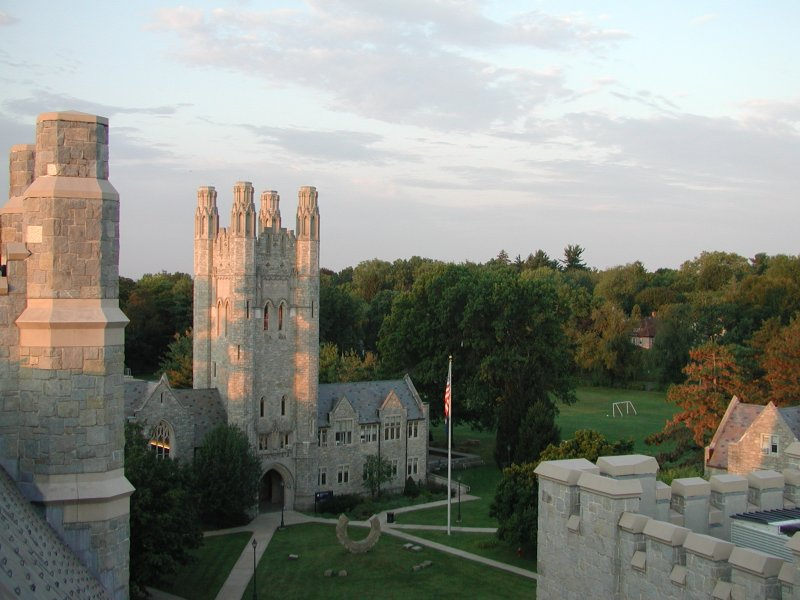 University of Connecticut School of Law, central quad.